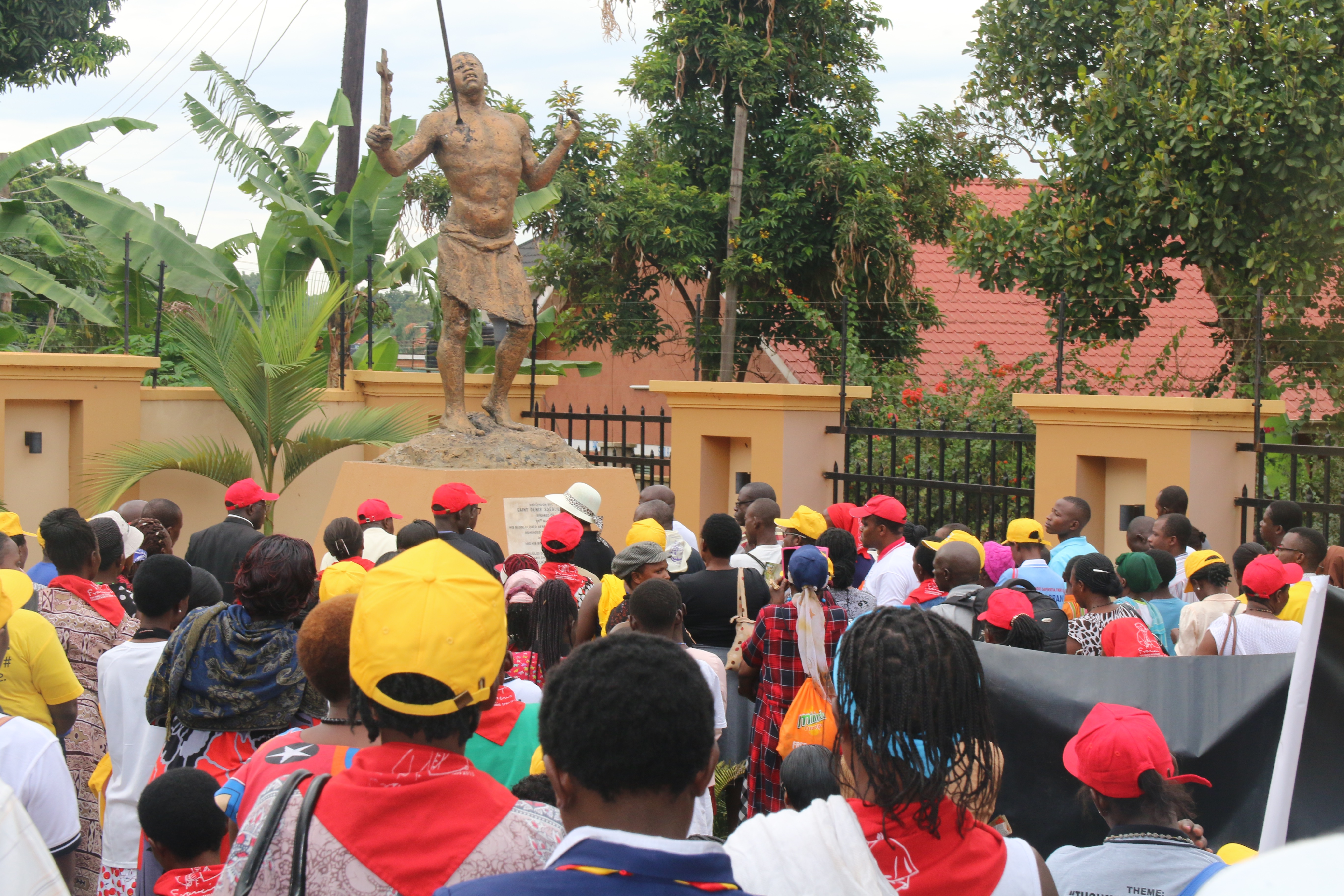 Monument erected on the spot in Munyonyo (Kampala), where St. Denis Ssebugwawo was martyred on 25 May 1886.